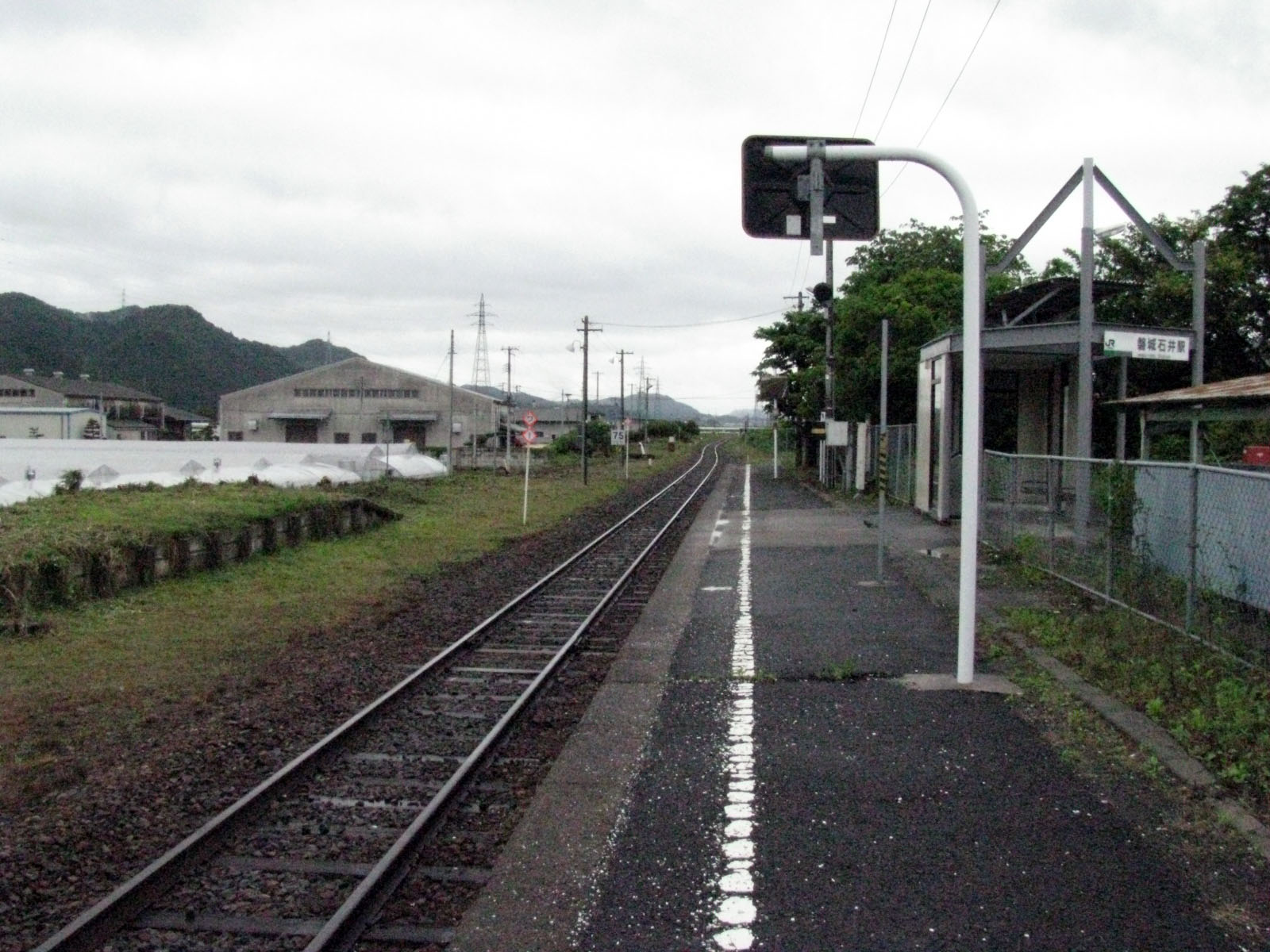 Iwaki-Ishii Station on Suigun Line